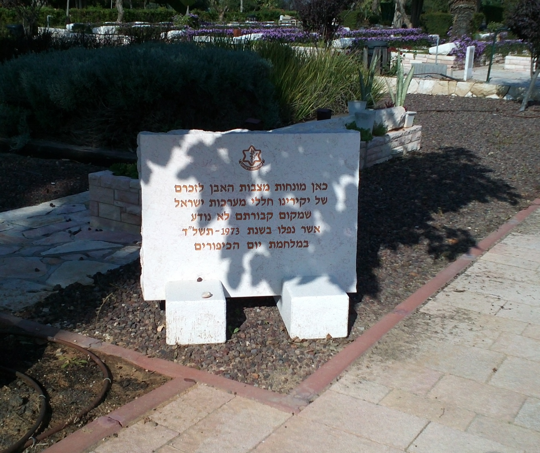 Israeli MIA memorial, Kiryat Shaul Military Cemetery